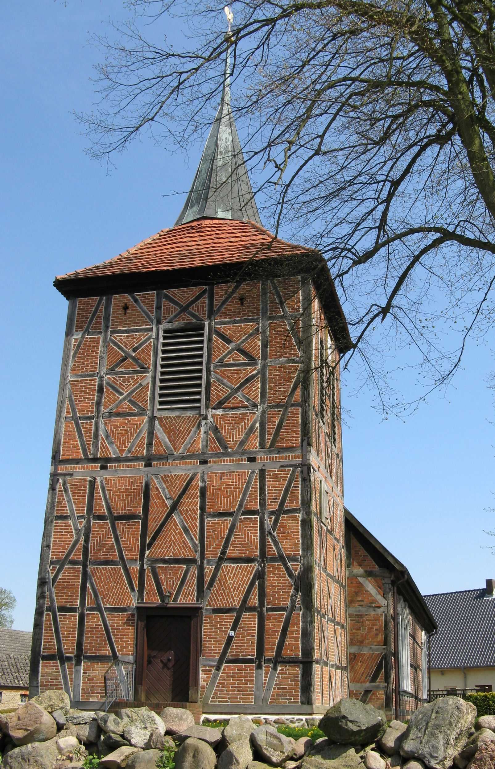 Church in Brunow, Mecklenburg, Germany